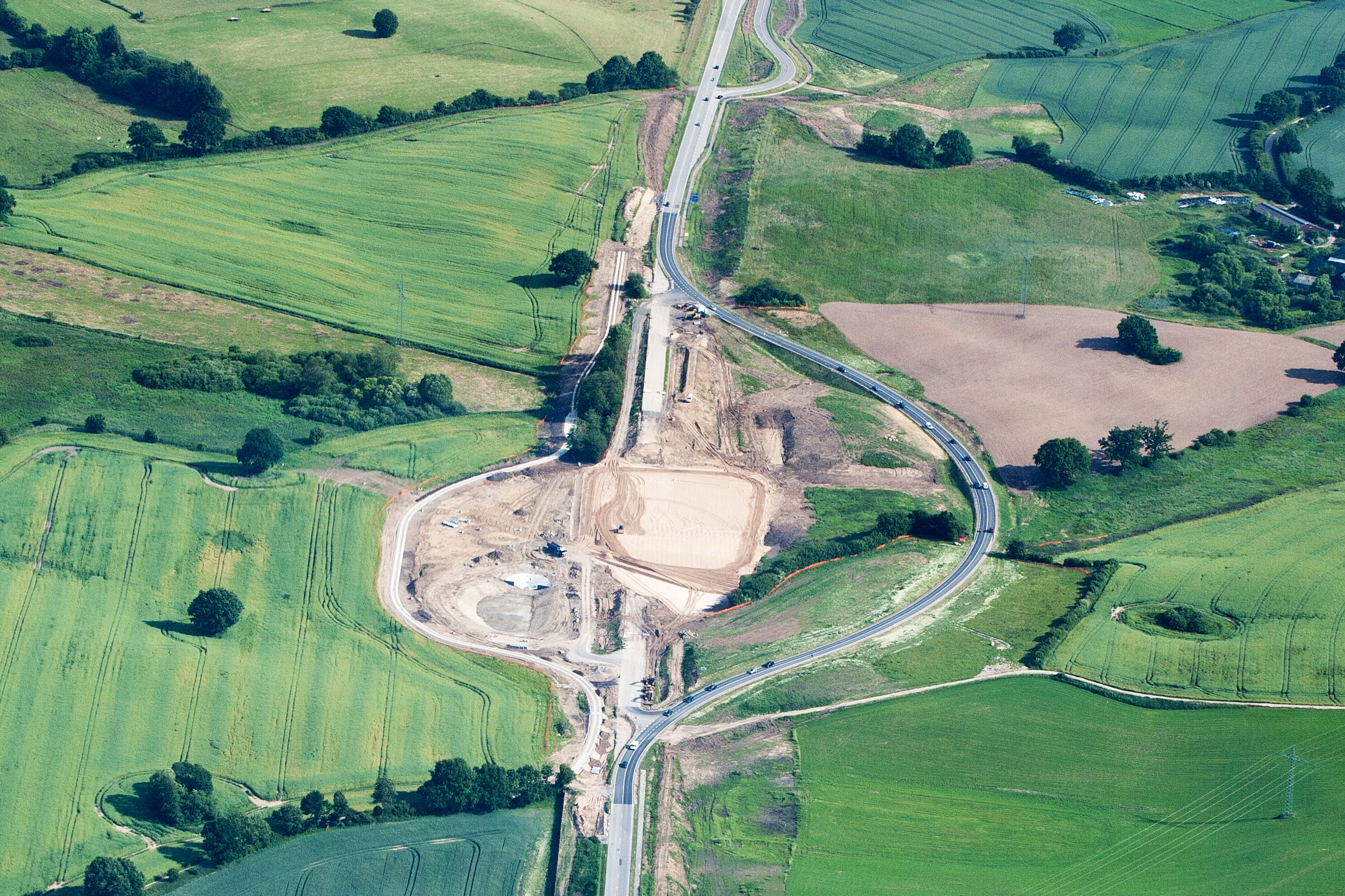 Road construction for the expansion of Highway "Bundesstraße 404" to the controlled-access highway "Bundesautobahn 21" at Stolpe in Schleswig-Holstein in June 2012